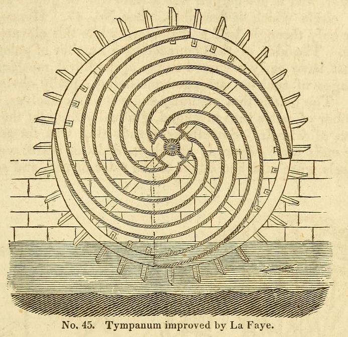 Improved tympanum diagram